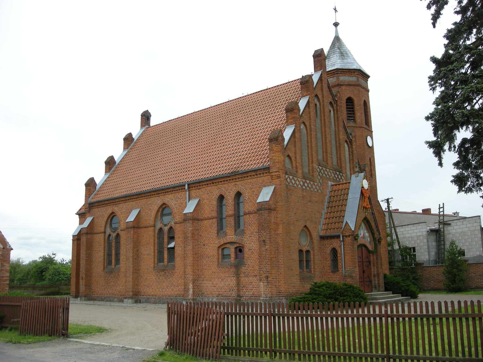 The church in Sośno, Poland.